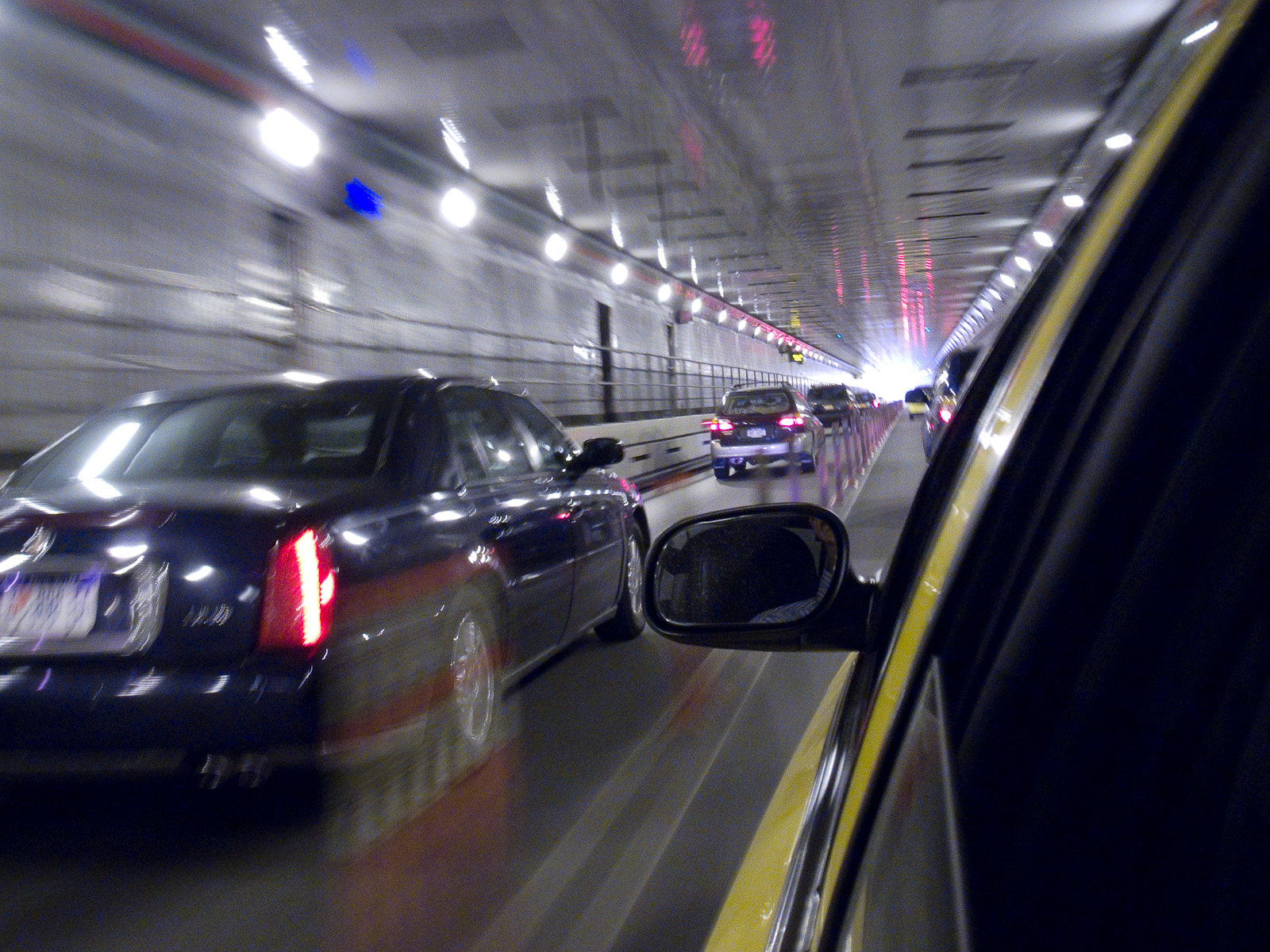 Queens Midtown Tunnel to LaGuardia Airport